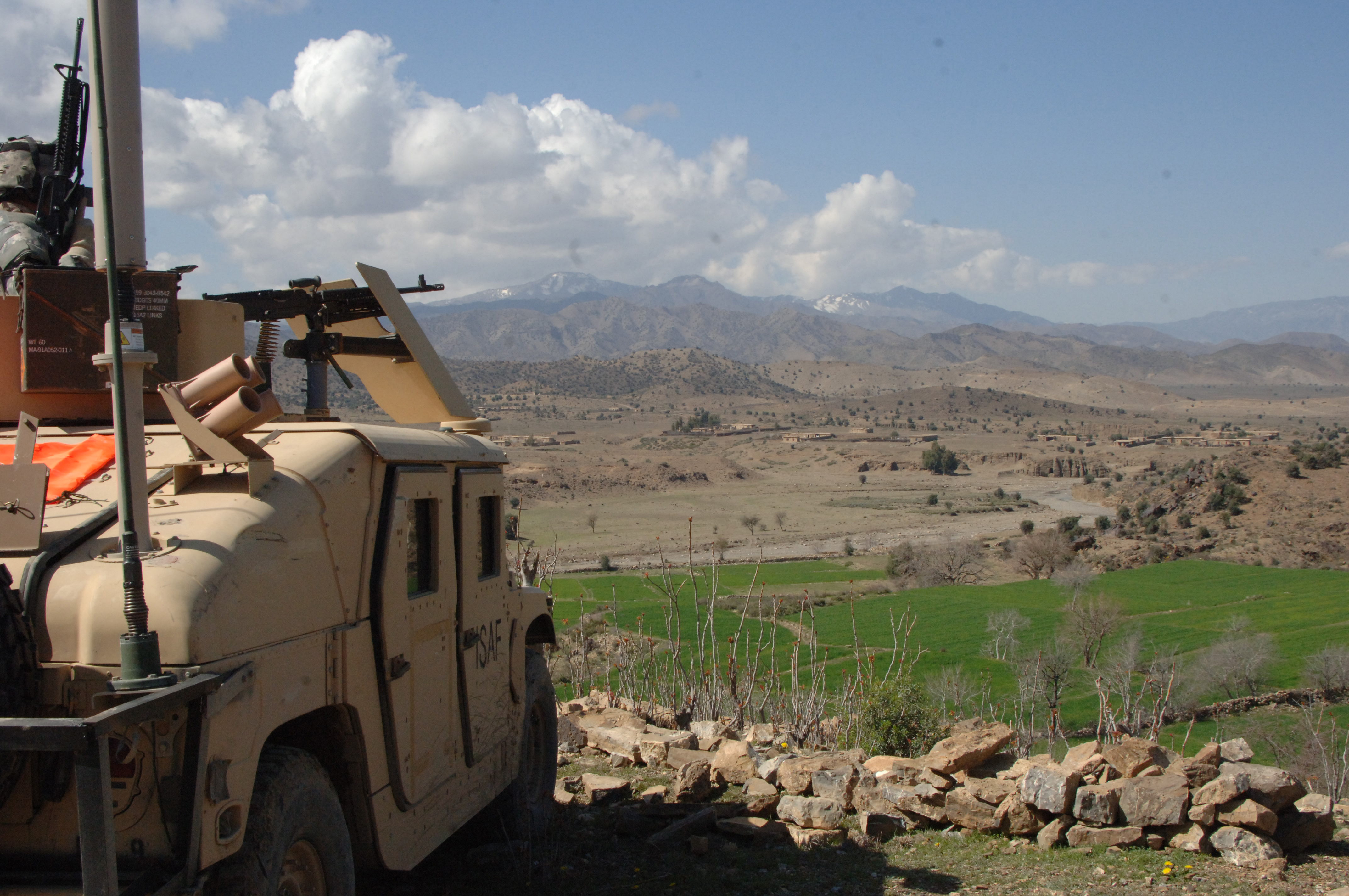 A U.S. Army Soldier from Charlie Company, 1st Battalion, 162nd Field Artillery Regiment pull security while other Soldiers talk with the Afghan National Police (ANP) commander at the Bara Border checkpoint in the Gorbuz District of Khost Province, Afghanistan, March 22, 2007. (U.S. Army photo by Staff Sgt. Isaac A. Graham) [1]